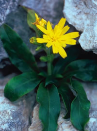 According to IUCN/SSC specialists this is one of the most endangered species of island floras in the Mediterranean area.